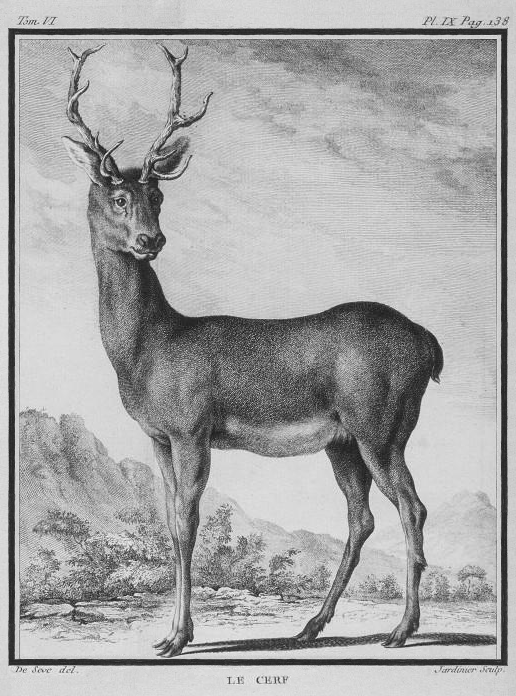 Le cerf - Stag Red Deer (Cervidae) Image from the French book: Illustrations de Histoire naturelle générale et particulière avec la description du cabinet du roy Tome VI, Plate IX, Page 138 - Publisher: Imprimerie royale, Paris (retouched version: Removed spots and kink traces; restored historic black framing)